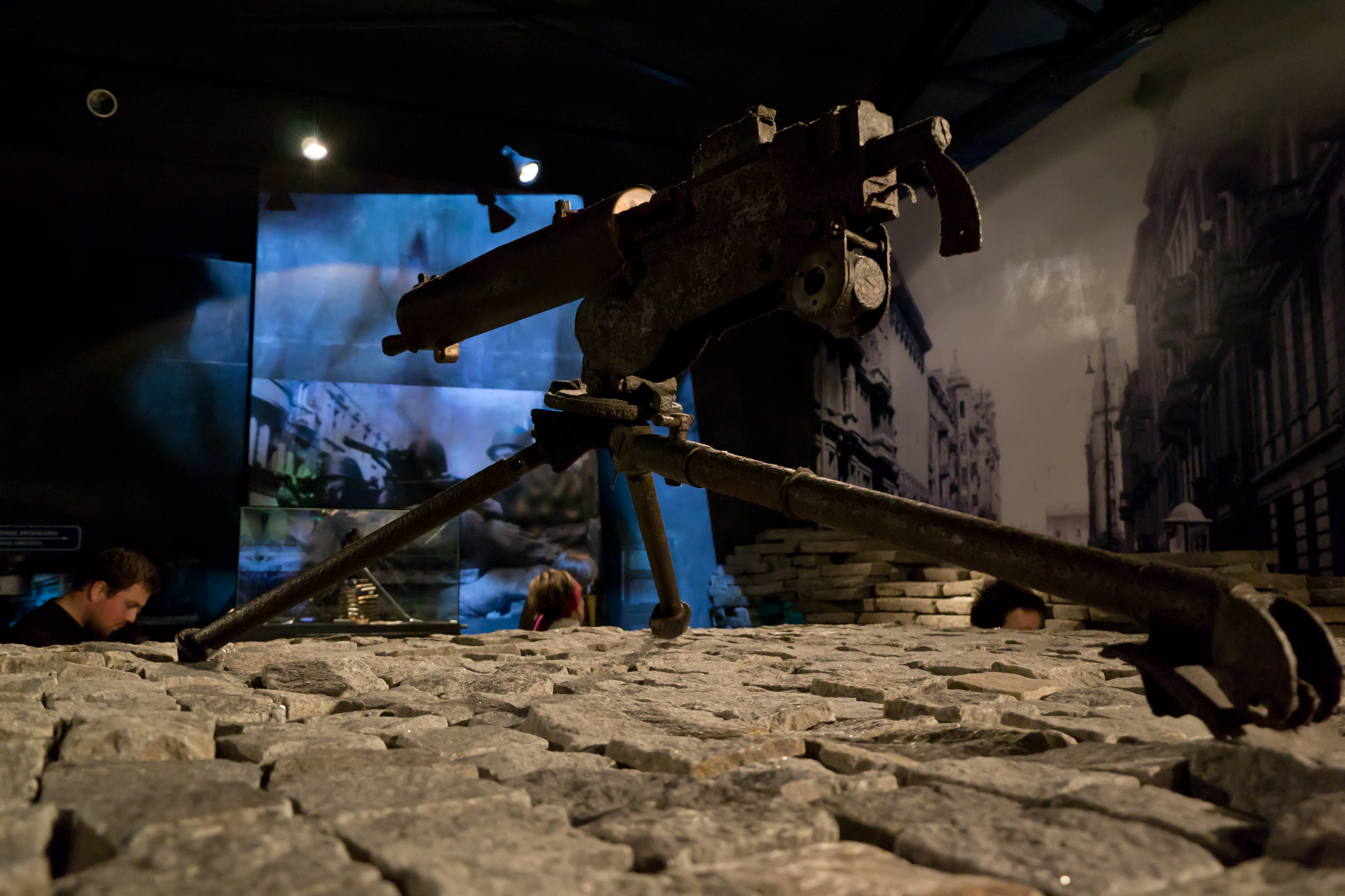 Picture of the Warsaw Uprising Museum